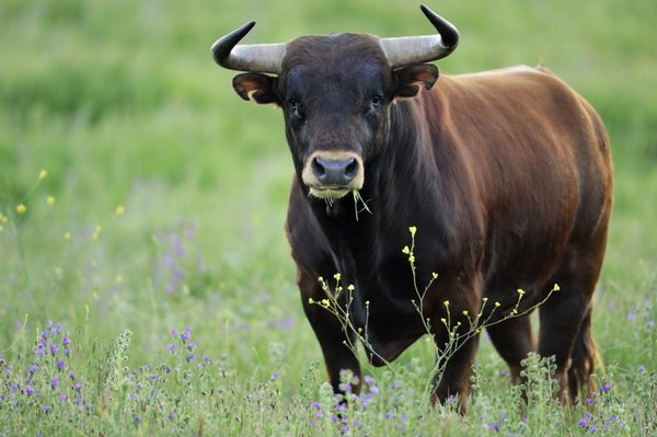 Бык – это очень грозное и устрашающее животное